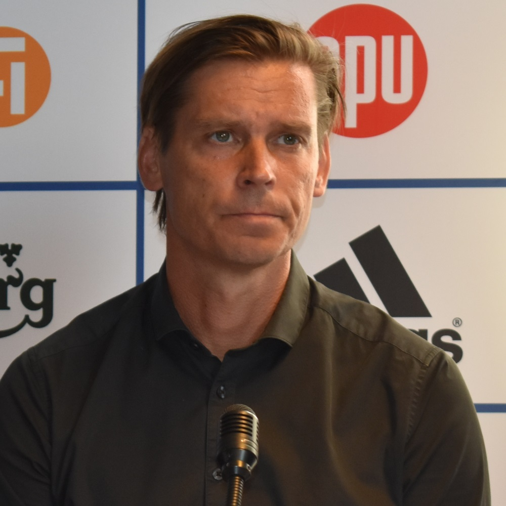 Association football coach Petri Vuori (VPS)